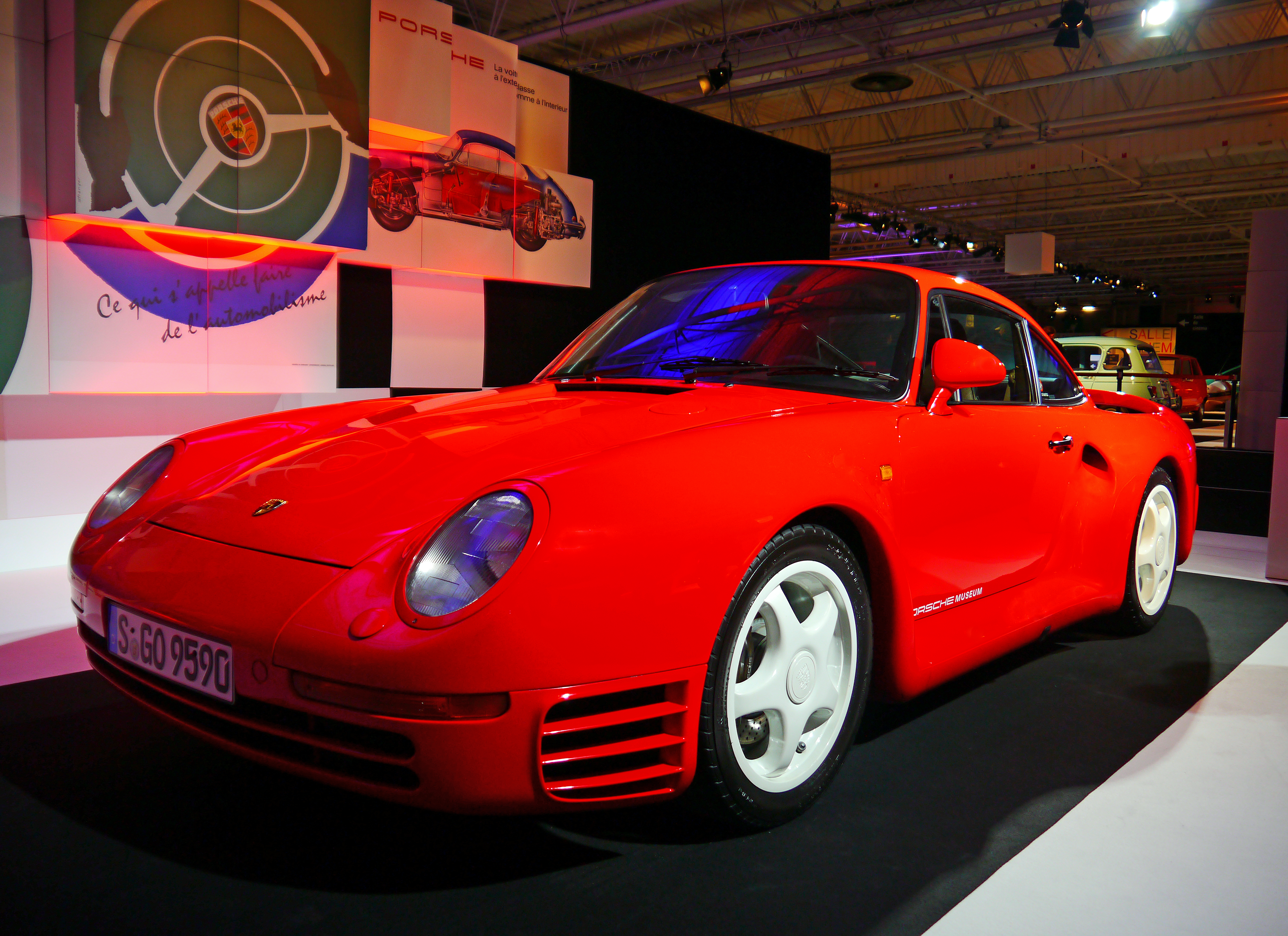 1988 Porsche 959 coupé - Only 292 produced. 6-cylinder 2849 cc boxer turbo engine (331 kW; 450 bhp) - Top Speed: 315 Km/h.